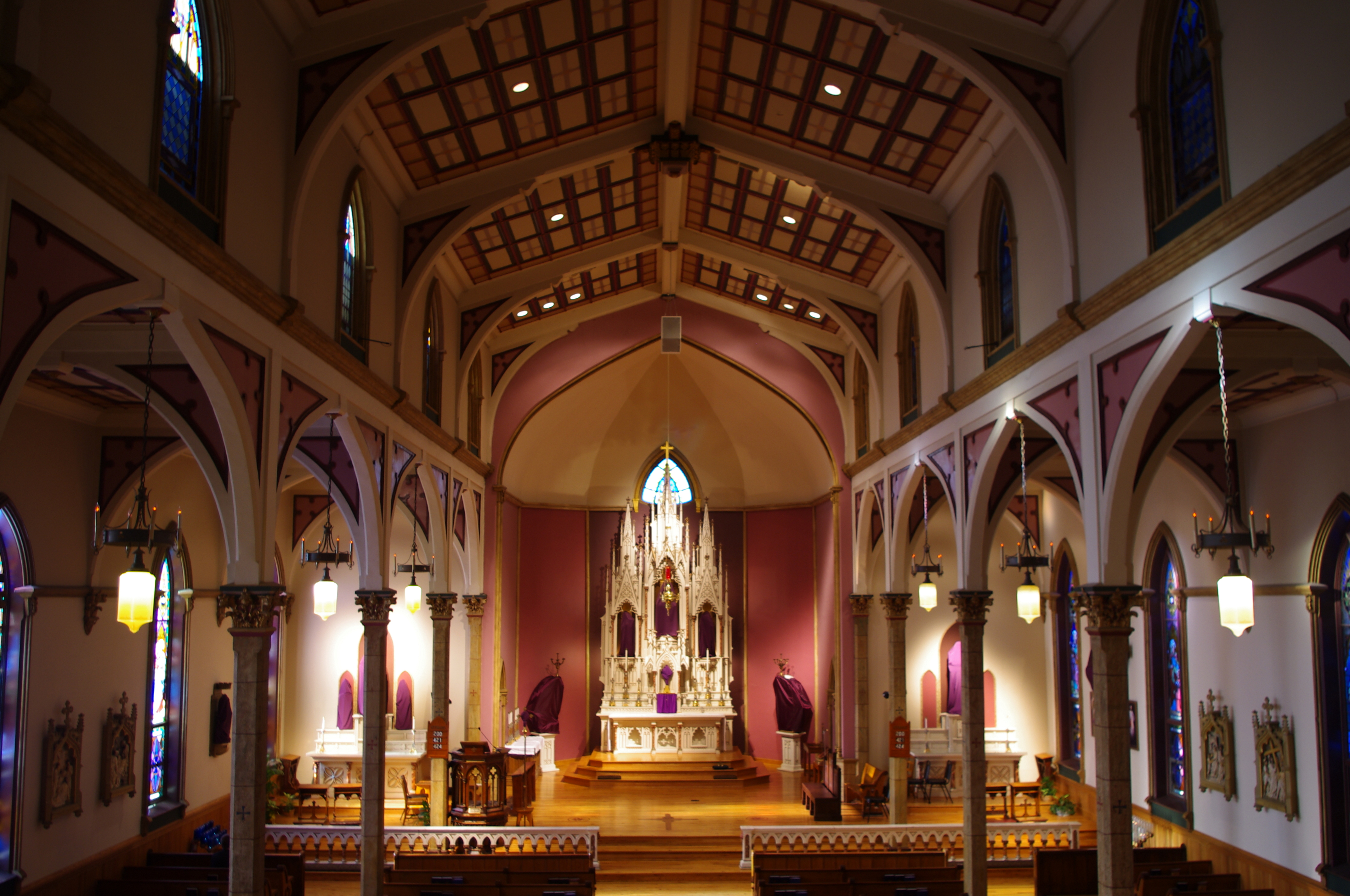 Holy Family Church (Columbus, Ohio), interior, nave decorated for Passiontide, view from organ loft